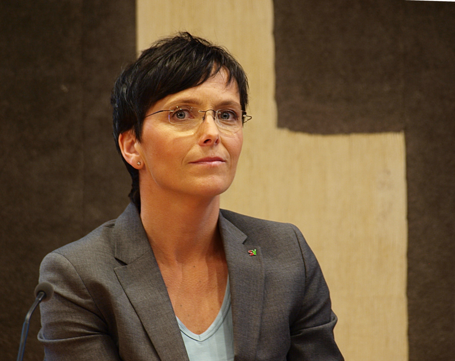 Heidi Grande Røys at a presentation of a book at the Fornyings- og administrasjonsdepartementet